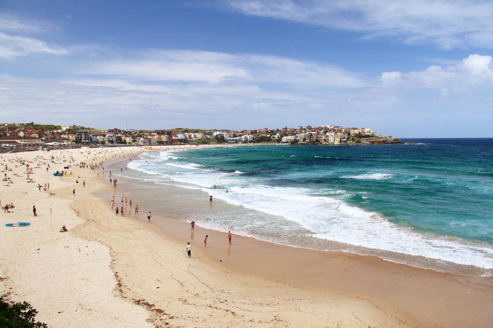 Sydney Bondi Beach in daytime.